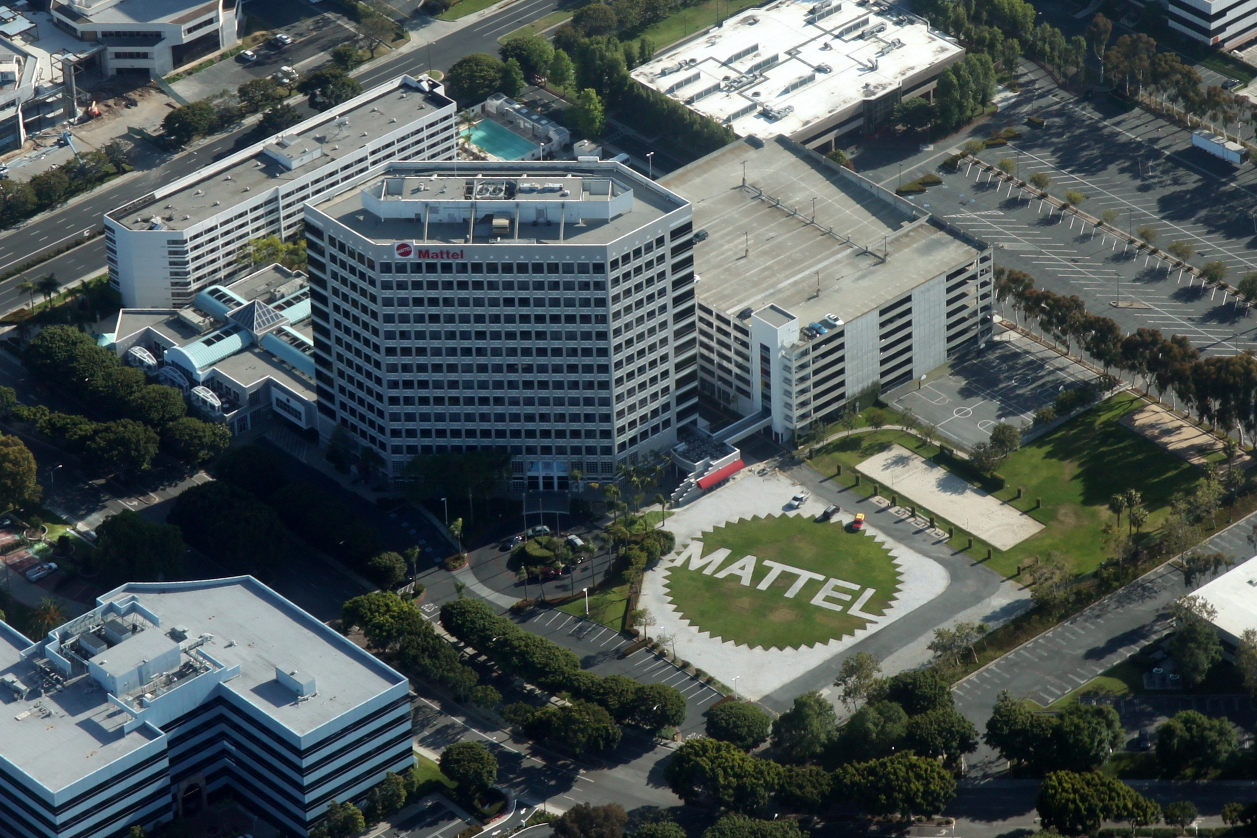 2012 aerial photograph of the corporate headquarters of Mattel, 333 Continental Blvd, El Segundo, CA 90245